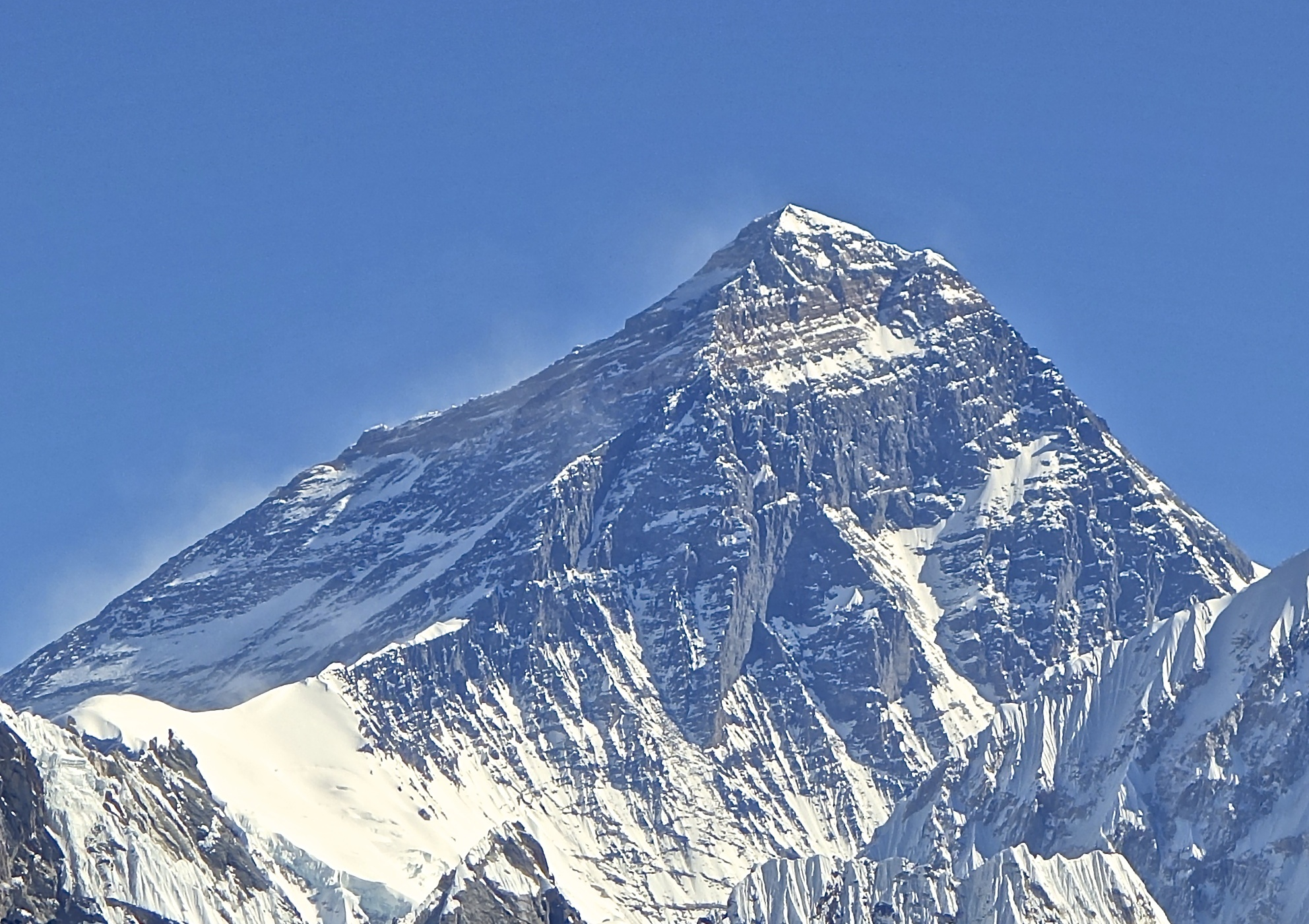 A cropped derivative of File:Mt. Everest from Gokyo Ri November 5, 2012.jpg